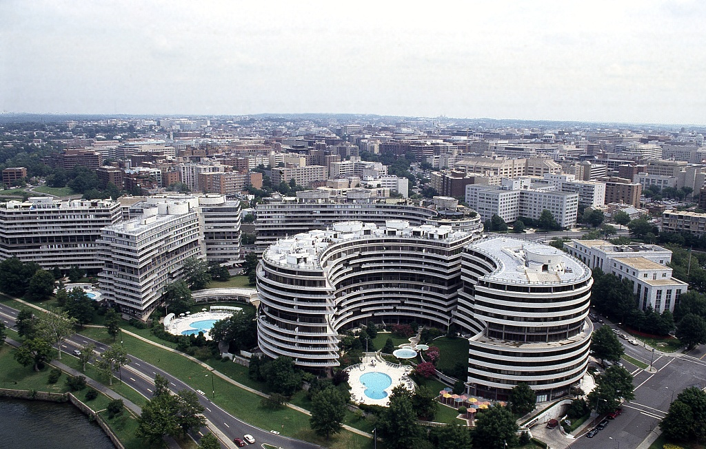 Aerial view of the infamous Watergate Hotel, Washington, D.C.